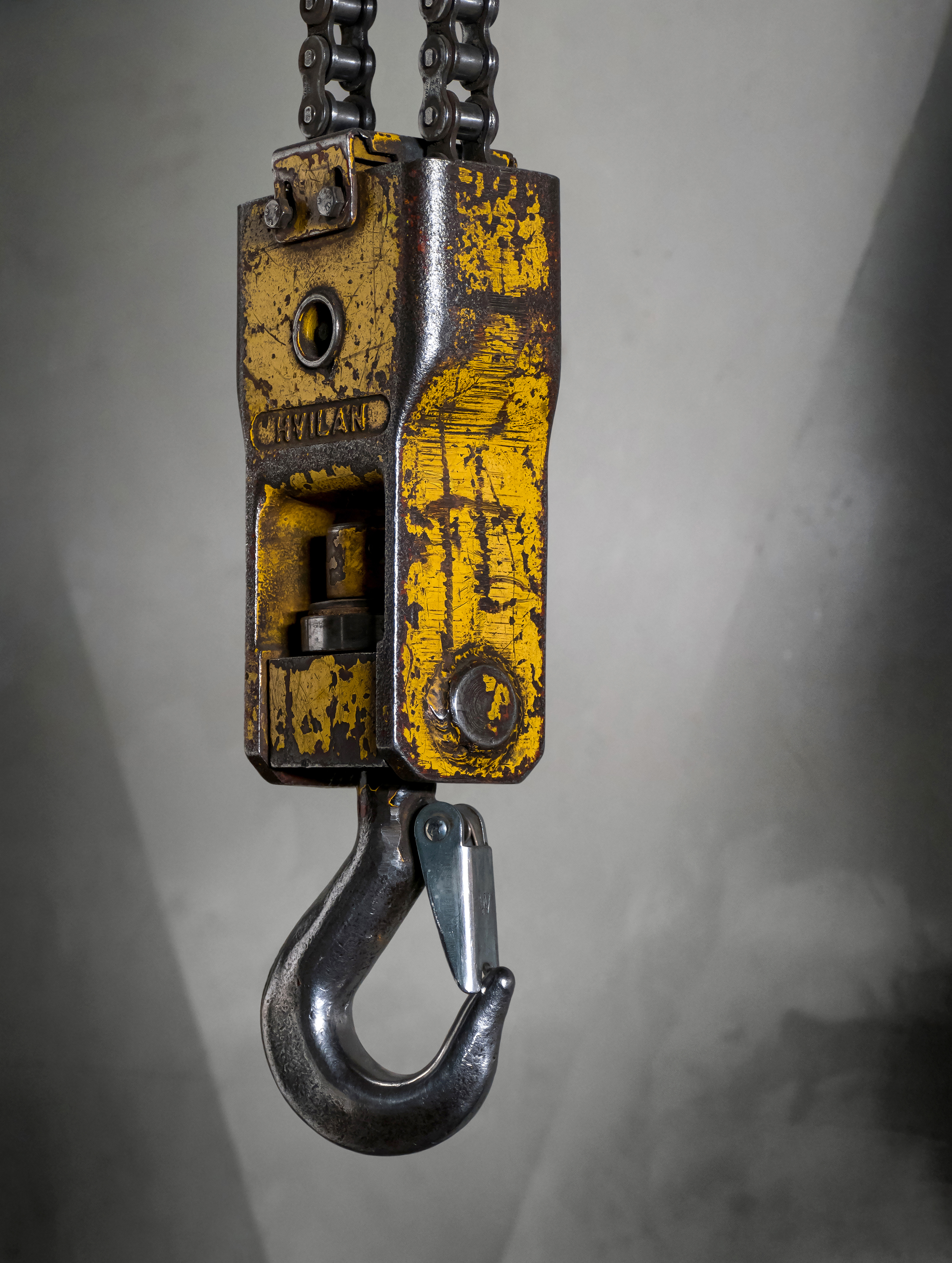 Lifting hook with a safety latch hanging from a bridge crane at a mechanical workshop in Gåseberg, Lysekil Municipality, Sweden. The hook was made by Hvilans Mekaniska Verkstad and it was used to suspend and convey assorted goods that were worked on the workskop. Another photo of a similar hook in the same workshop shows the whole array: File:Indoor crane with lifting hook.jpg. The background is a door covered with slightly dirty bent sheet metal. The image is focus stacked from two photos.